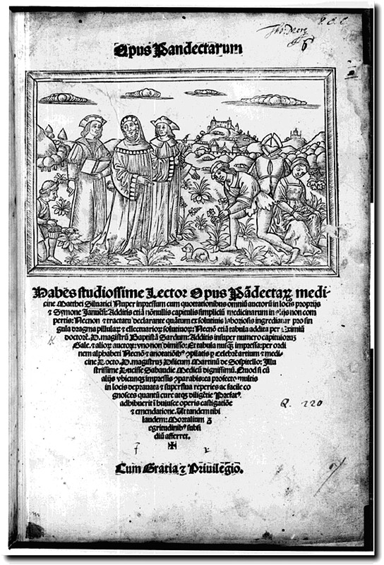 Front page of "Opus Pandectarum Medicinae" by Mattheus Silvaticus, it depicts Mattheus Silvaticus that teach his students about medical plants in his botanical garden in Salerno